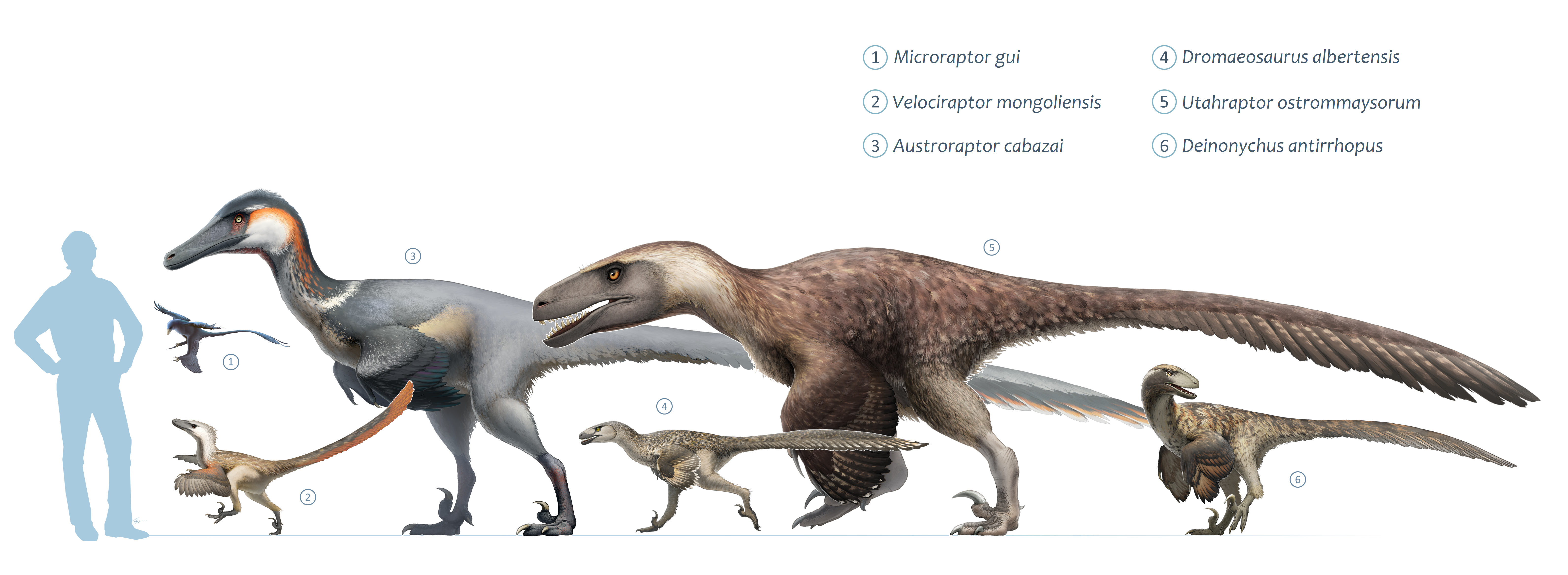 Size chart of different well known dromaeosaurs: Microraptor gui, Velociraptor mongoliensis, Austroraptor cabazai, Dromaeosaurus albertensis, Utahraptor ostrommaysorum, and Deinonychus antirrhopus